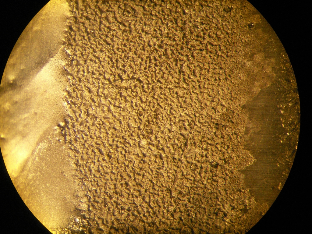 A closeup micrograph of a TIG weld etch zone on 6061 aluminium (pulsed at 200 amps peak current, 5 amps sustain current, 50% pulse duty cycle, AC, 65% electrode negative, pure argon shield gas). These intentionally suboptimal conditions produce an widened etch zone where the normal layer of aluminium oxide has been removed from the surface, leaving exposed metallic aluminium capable of being welded. Image is approximately 10mm across the field of view; photographed with a Wild M5Z microscope and a Konica-Minolta Dimage X1 digital camera by W.S. Yerazunis.